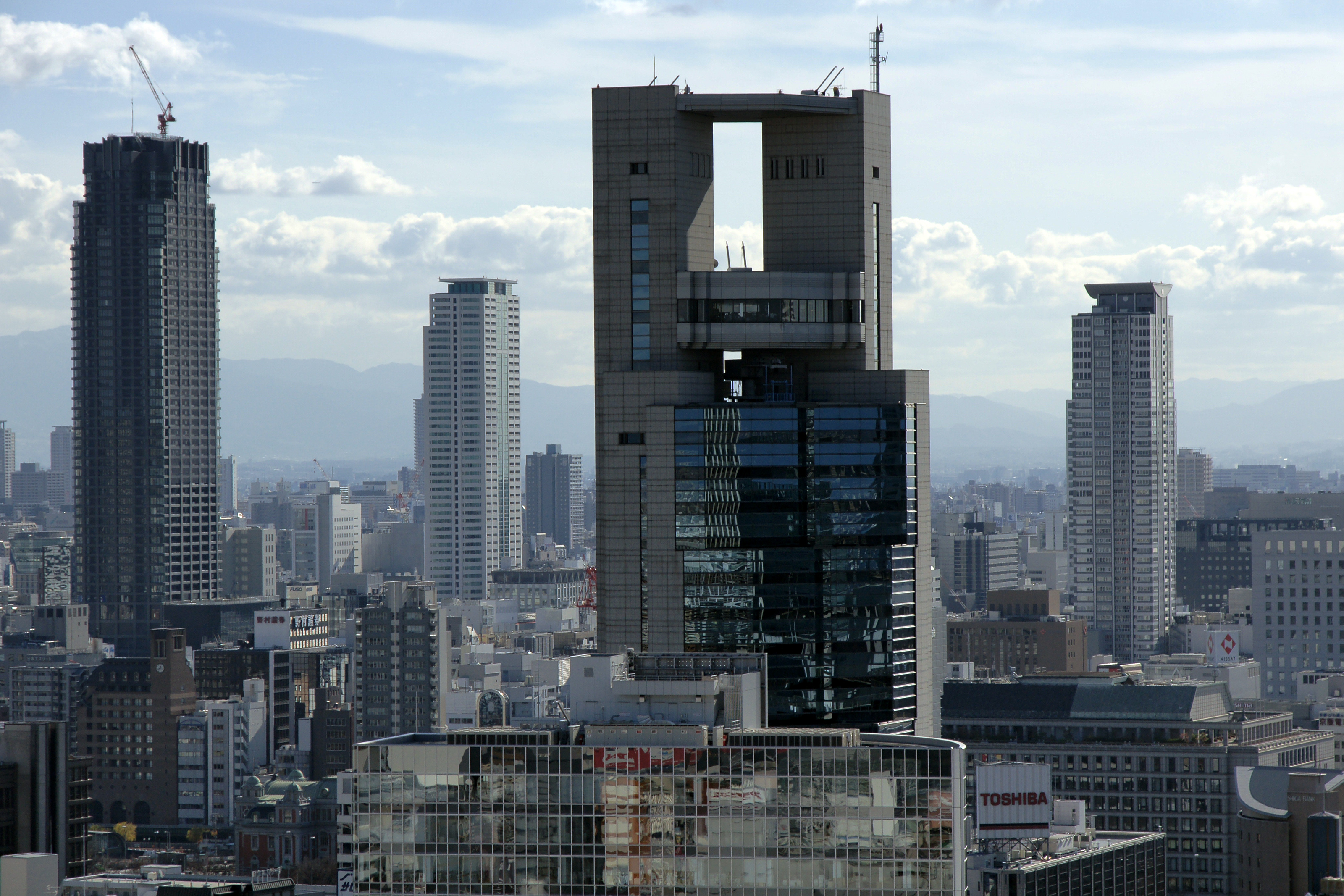 East of Umeda, Osaka, Osaka prefecture, Japan